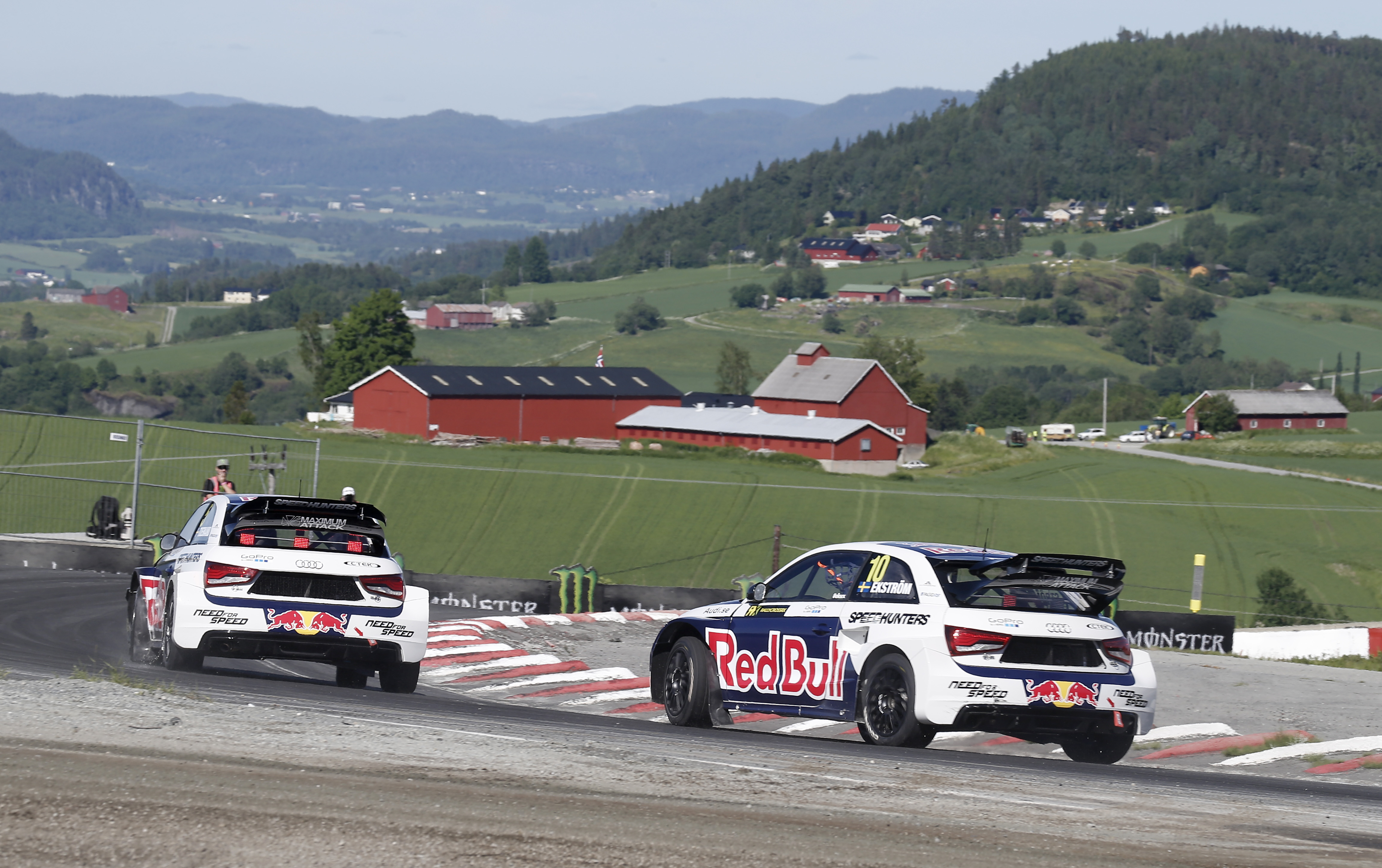 2014 FIA World Rallycross Championship Round 03 Hell, Norway 14th - 15th June 2014 Worldwide Copyright: EKS/McKlein